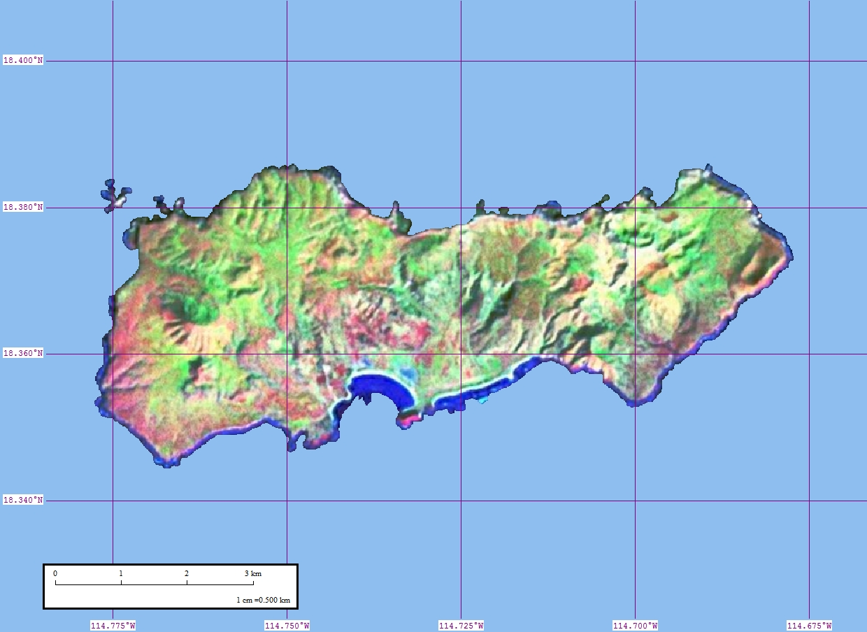 Image taken from Landsat Image